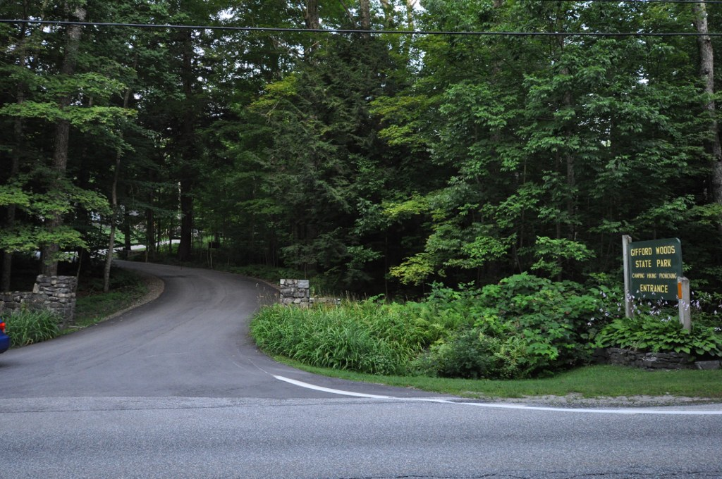 Gifford Woods State Park, Killington, Vermont. Entrance.